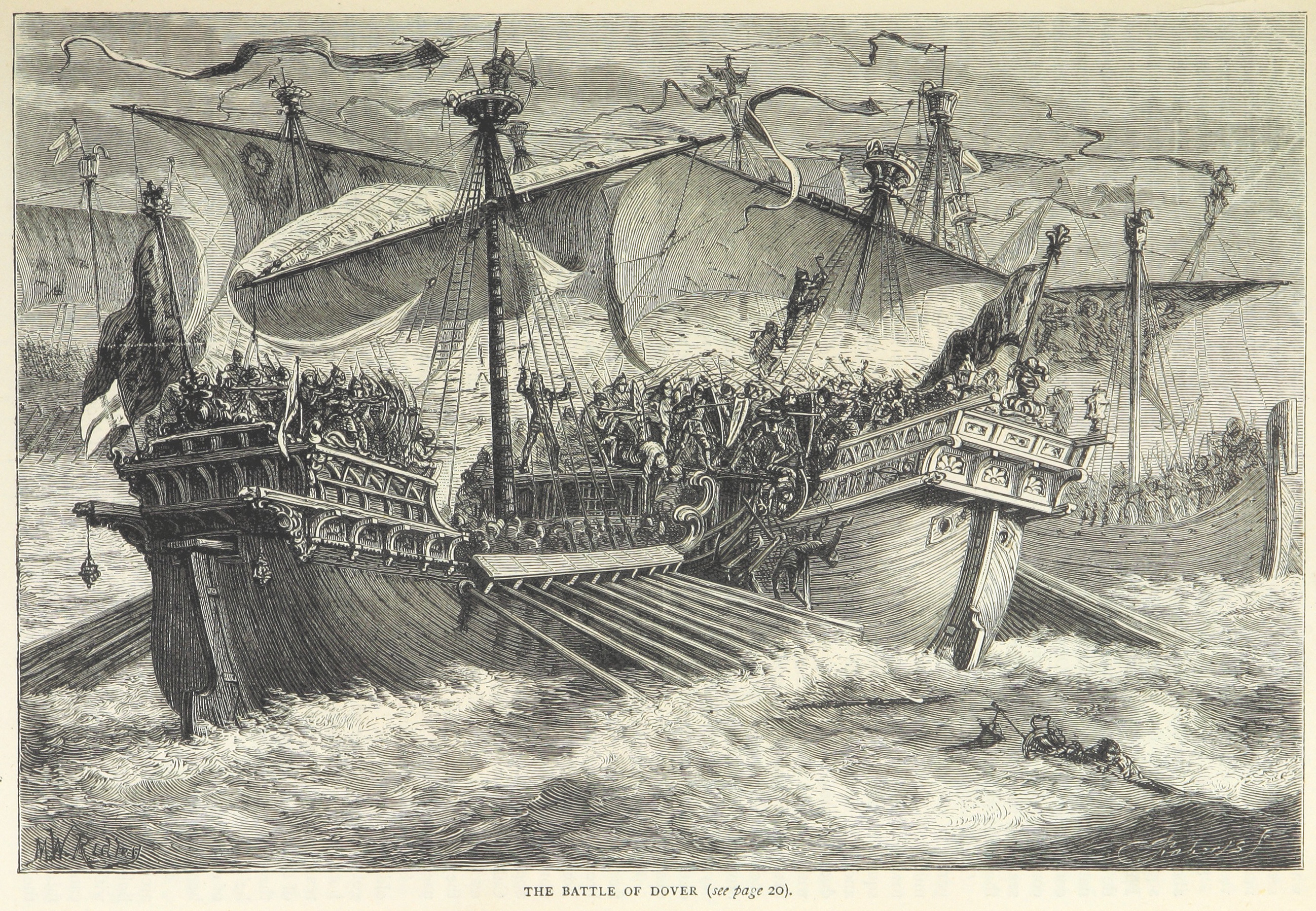 The 1217 Battle of Sandwich (1217), also called the Battle of Dover.